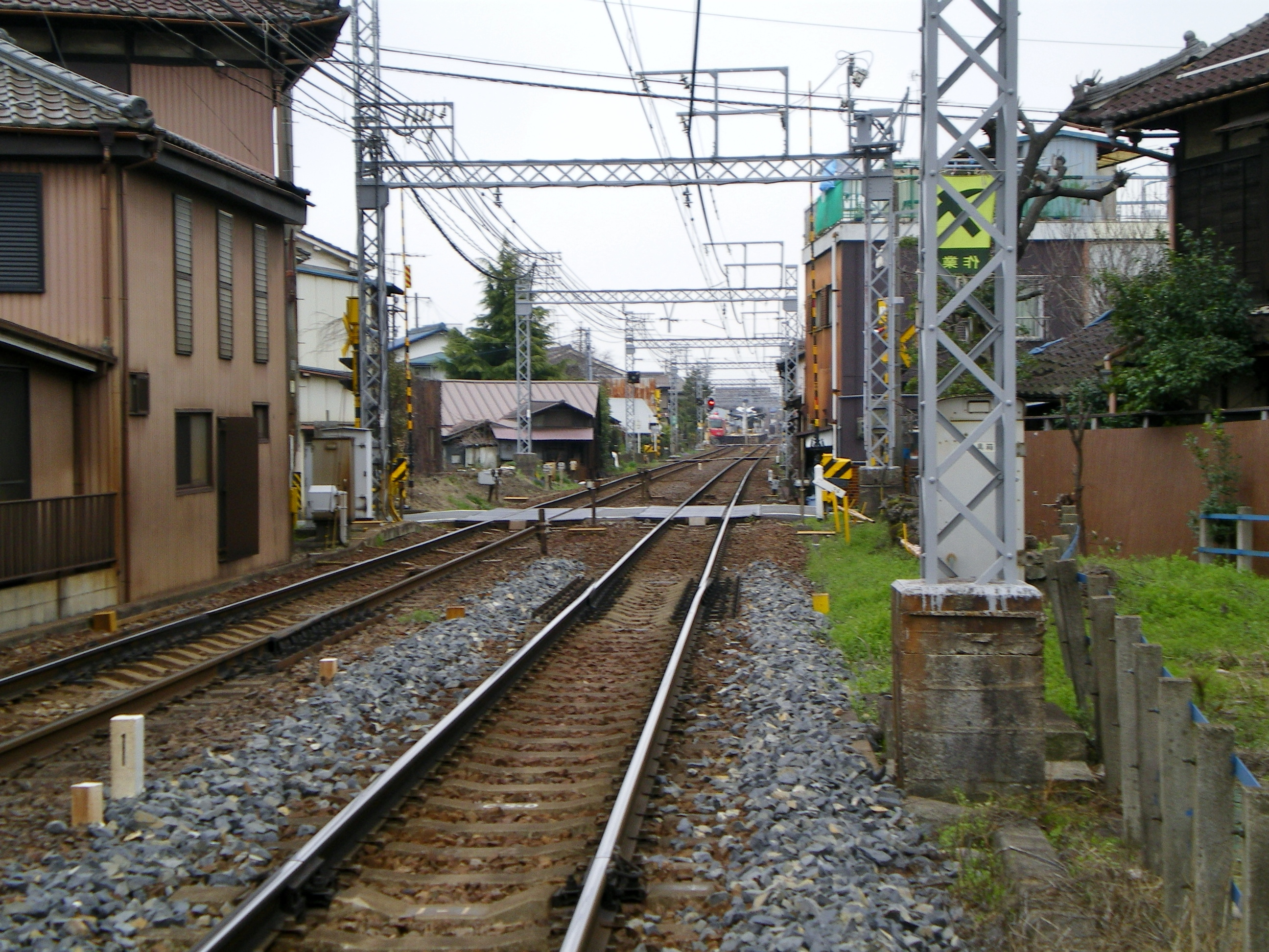 Nagoya Railroad Nagoya Main Line Hiroe (Abandoned) Station trace